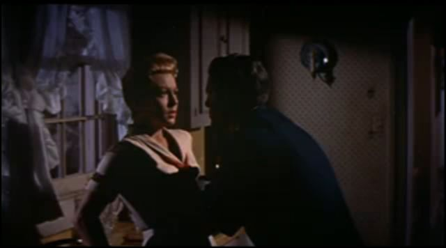 Lana Turner & Lee Philips in "Peyton Place"